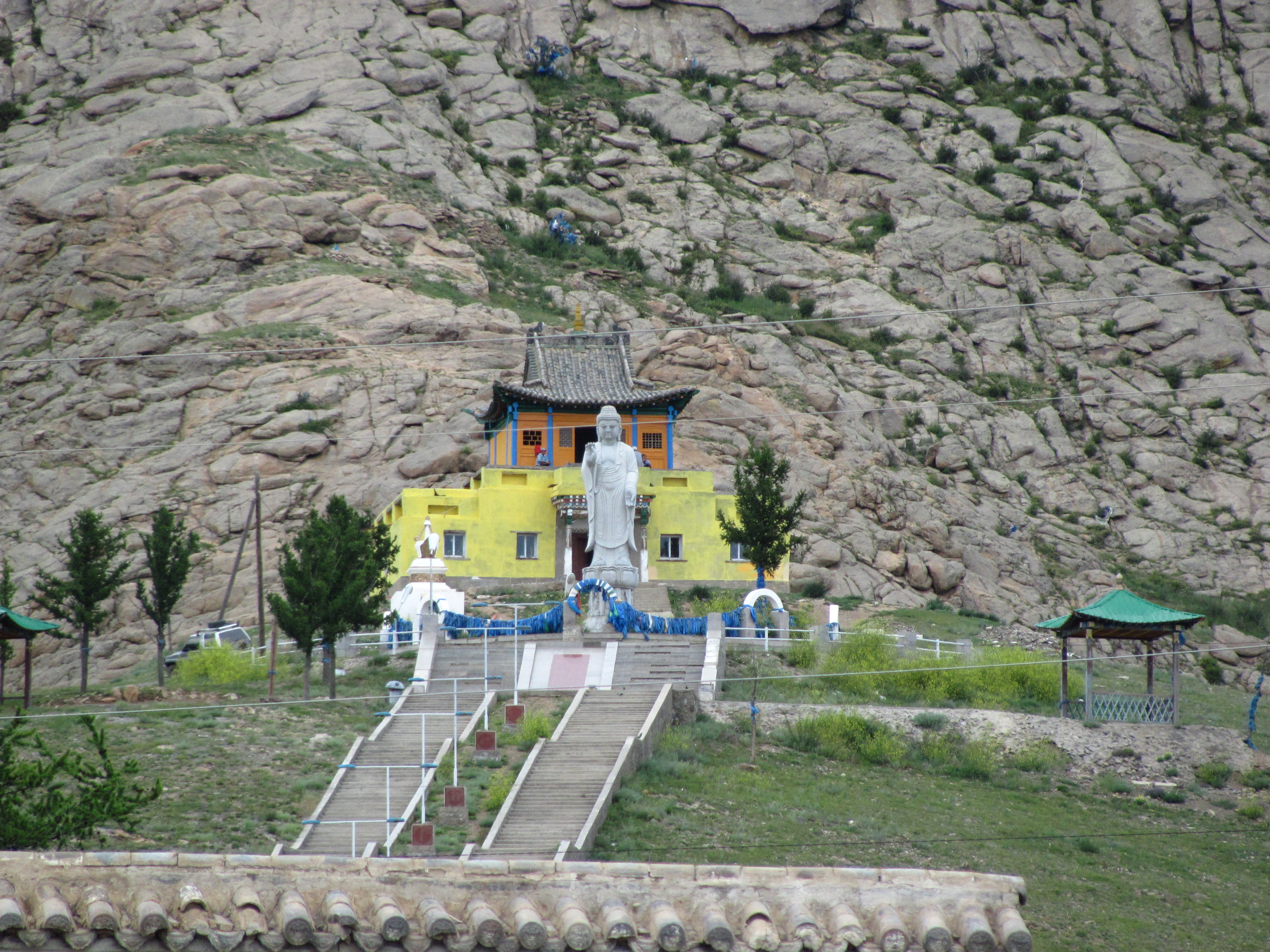 Galdan Zuu Temple, Tsetserleg, Mongolei.